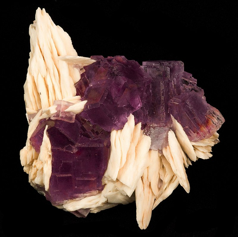 Baryte, Fluorite Locality: La Cabaña Mine, Berbes Mining area, Ribadesella, Asturias, Spain (Locality at ) Size: cabinet, 11.6 x 9.7 x 4.1 cm Fluorite on Barite Both barite and Fluorite are famously known from these now-closed mines. However, gettin a great combination piece, where both are equally balanced and add to the whole, is very difficult. This specimen I find one of the most aesthetically appealing of all I have seen of this material, for the combination. I like the stark contrast of the forms of the barite and the fluorite, which Gamini emphasized in his painting. In person, the fluorites are more gemmy and transparent than they appear in either the photos or the painting. Price includes specimen, painting, and custom lucite base for display.